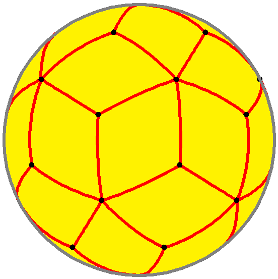 rhombic triacontahedron